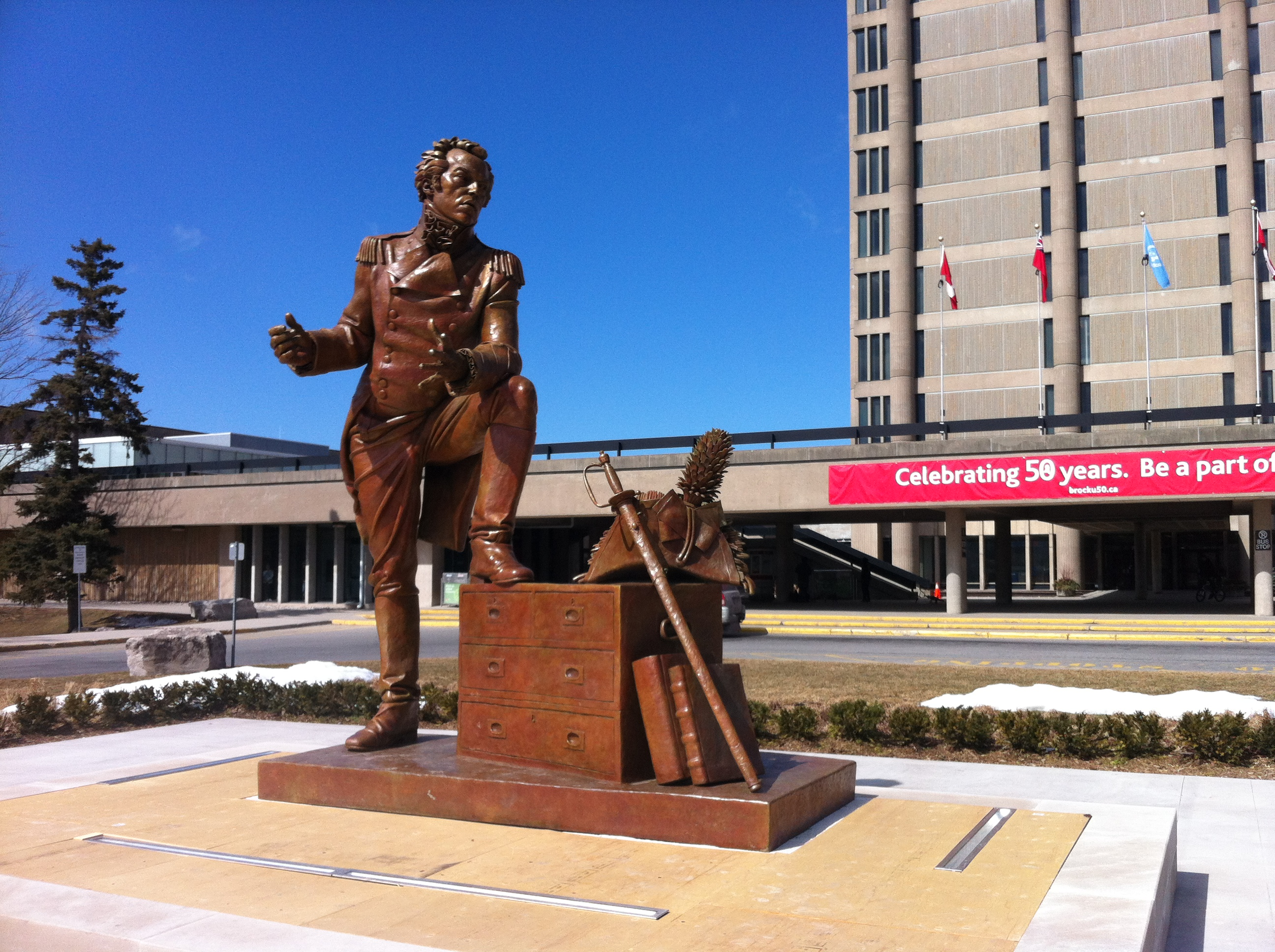 The 4.5m-tall statue of Sir Isaac Brock, War of 1812 hero and namesake of Brock University.